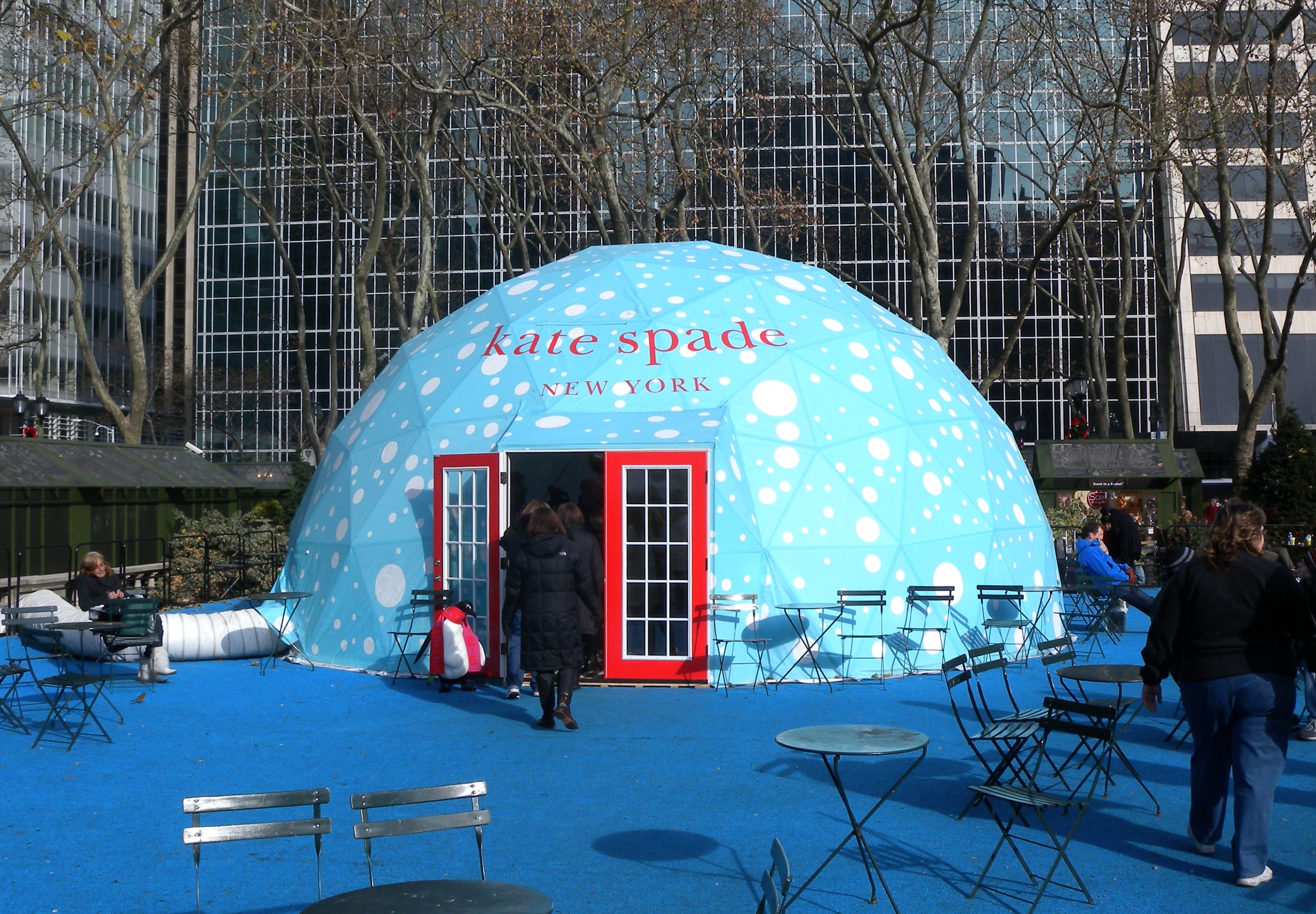 Looking north at domed temporary shop during the Christmas market.